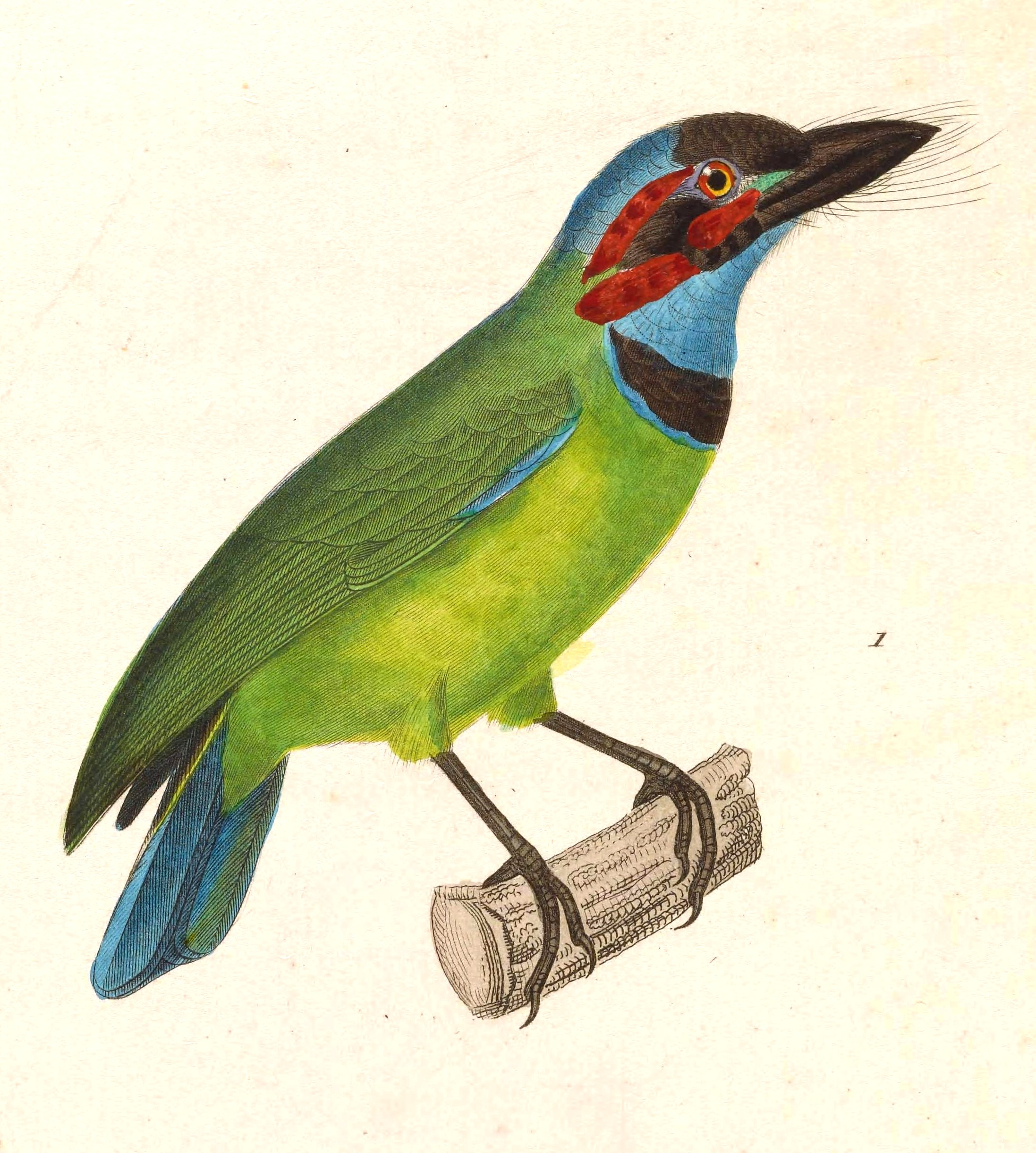 Bucco frontalis = Psilopogon duvaucelii (Black-eared Barbet) - adult male; drawn from specimen collected in Sumatra